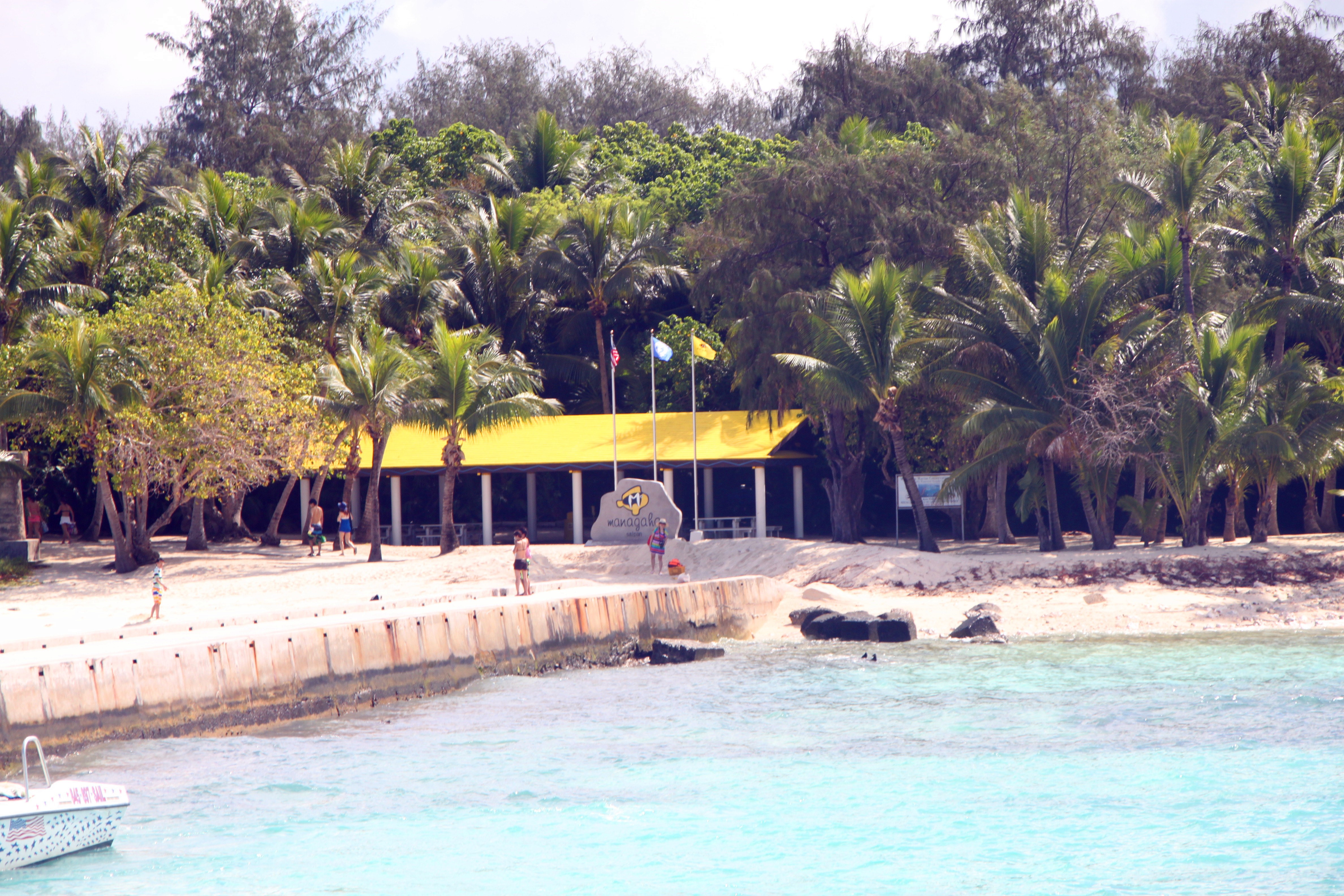 Managaha Island entrance